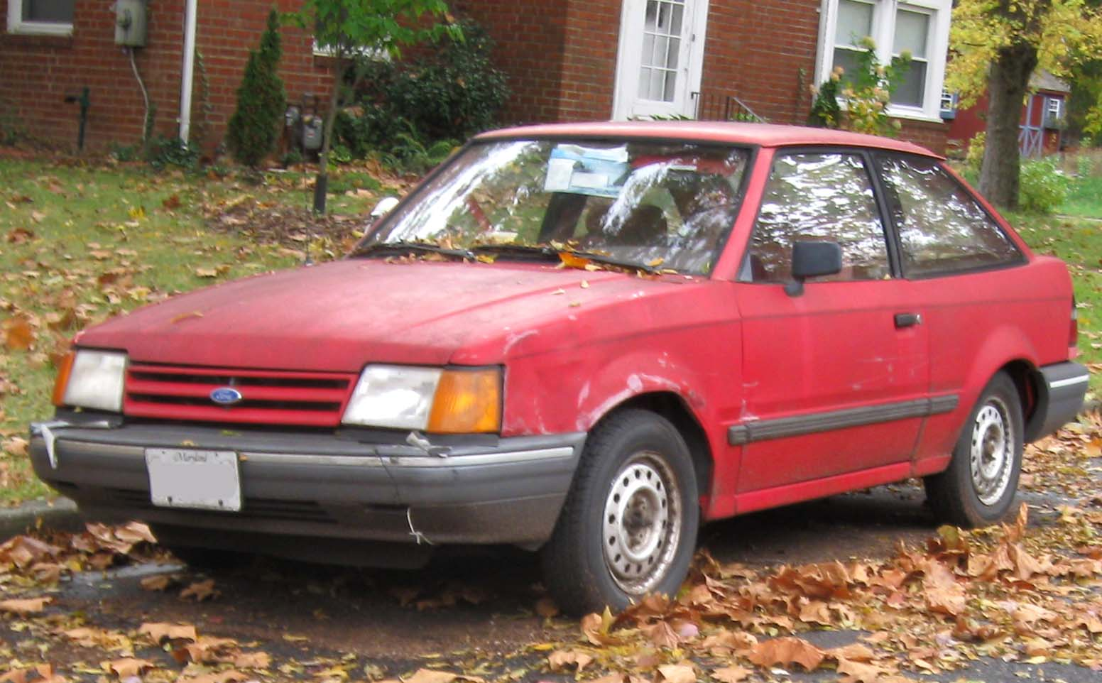 1988-1990 Ford Escort photographed in College Park, Maryland, USA.